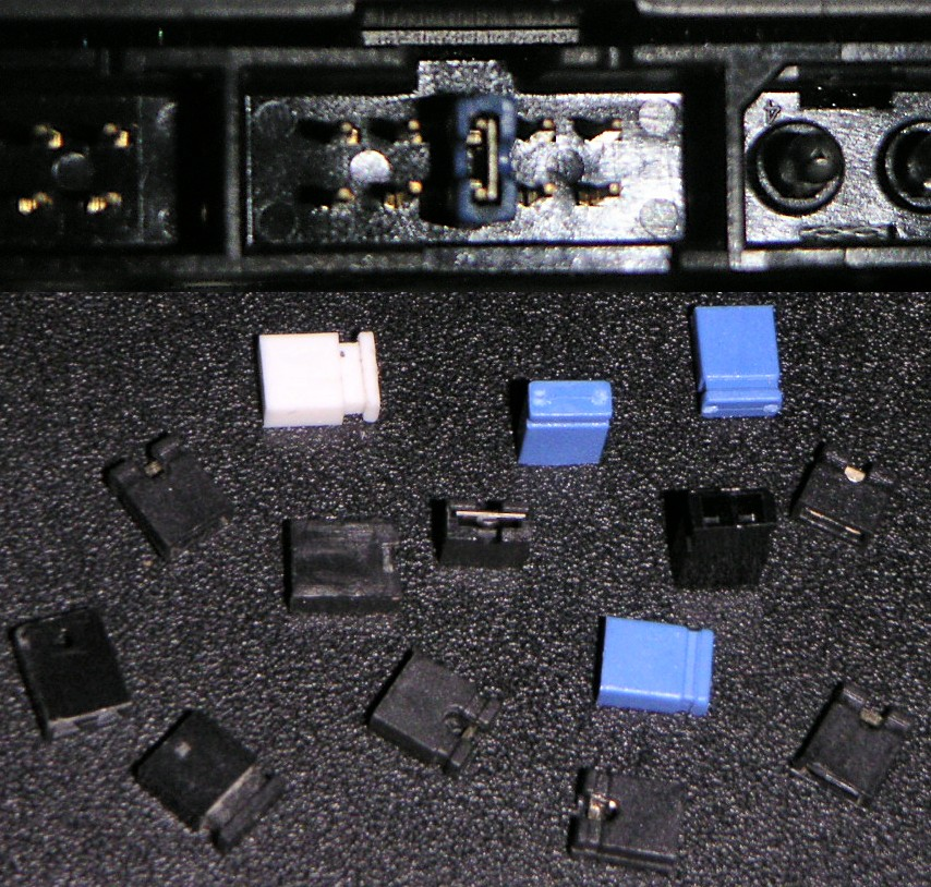 A Jumper